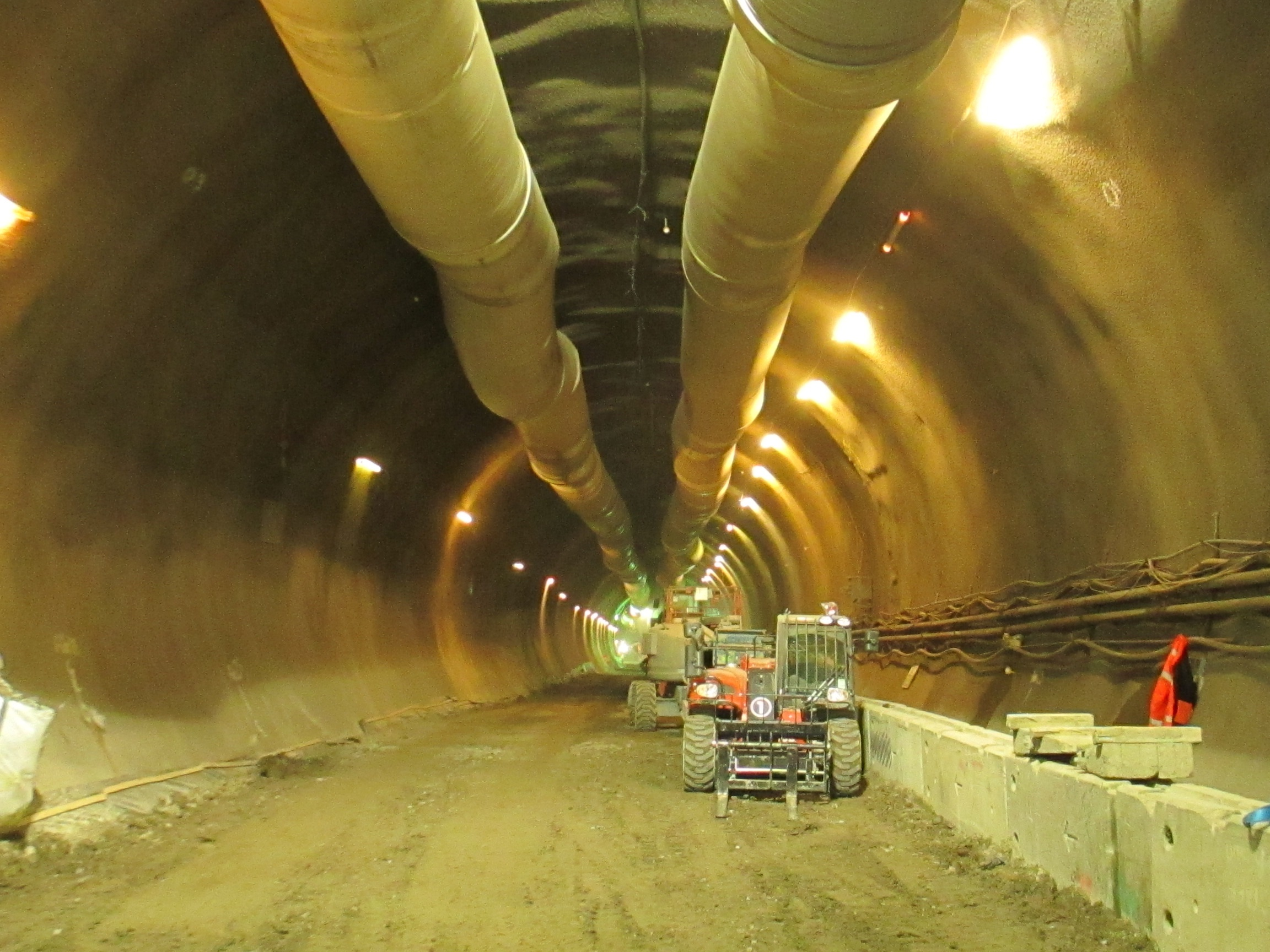 Crossrail tunnel looking west